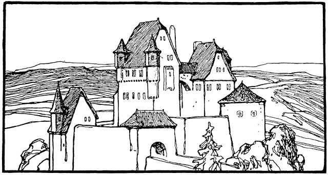 Illustration by Otto Ubbelohde to the fairy tale The Skillful Huntsman